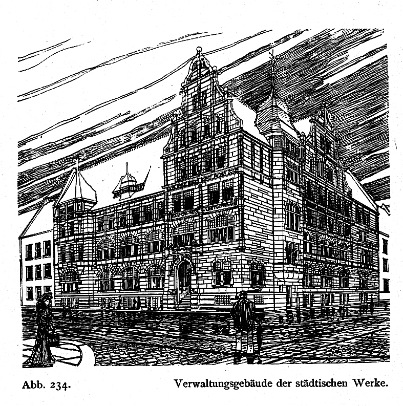 t